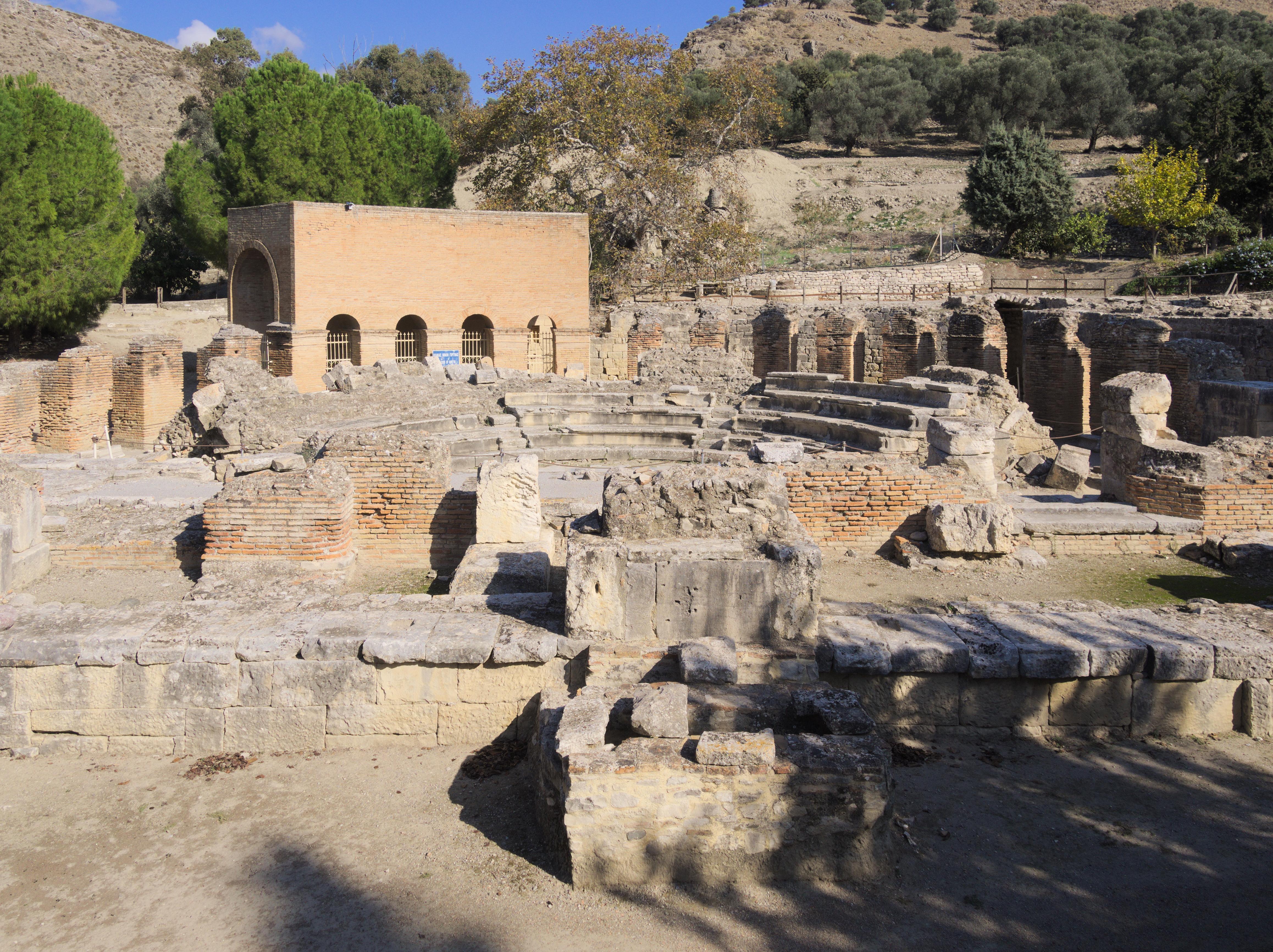 The Roman Odeon of Gortys.